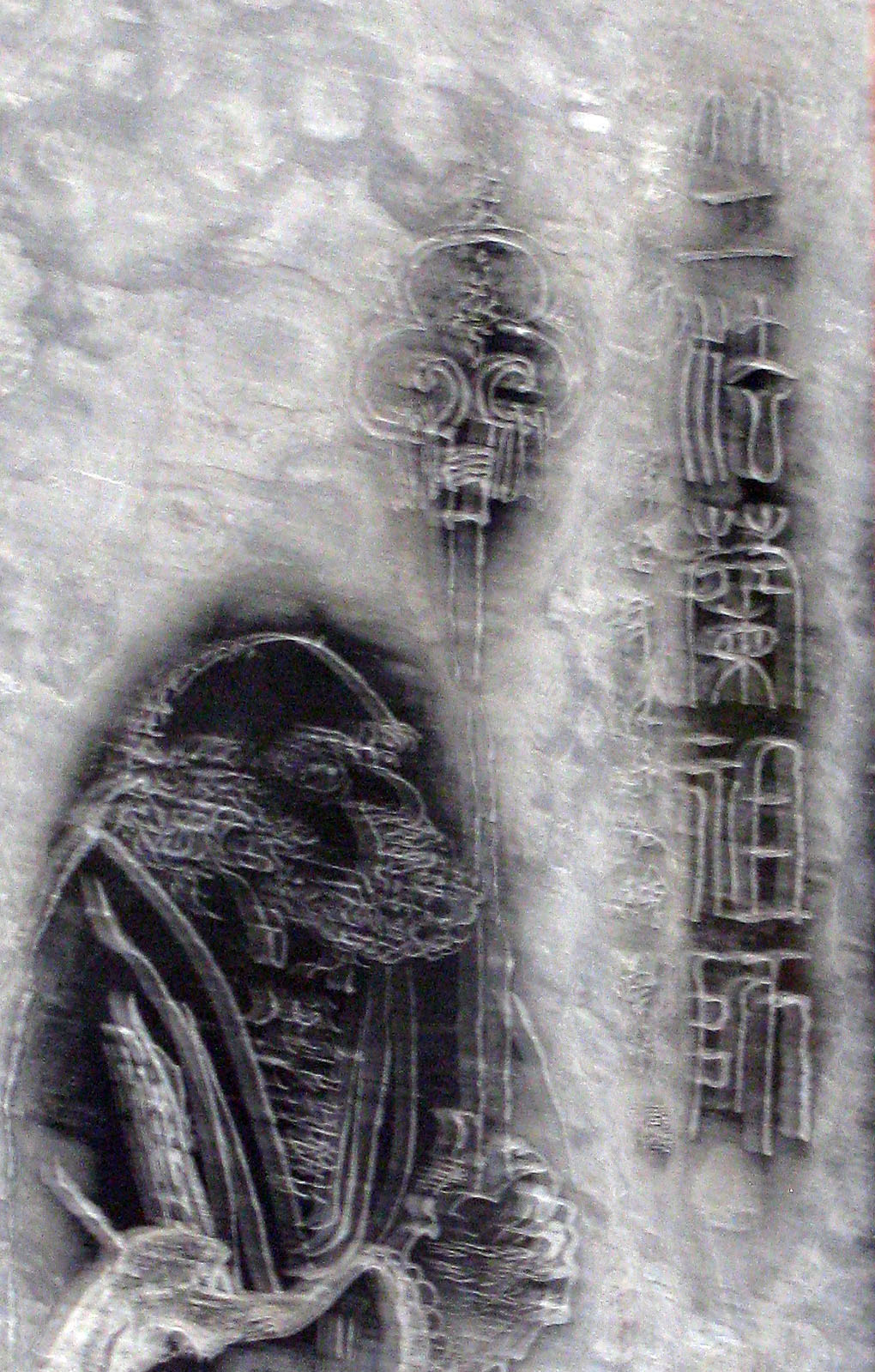 Tumulus Marker of Dharmaratna with his image and name in Chinese located in Luoyang China's White Horse Temple. There are two tumulus - this one is located on the western side. His compatriot Kasyapa Matanga is on the eastern side.